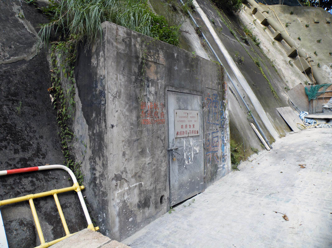 Air-raid shelter, Blue Pool Road 藍塘道防空洞